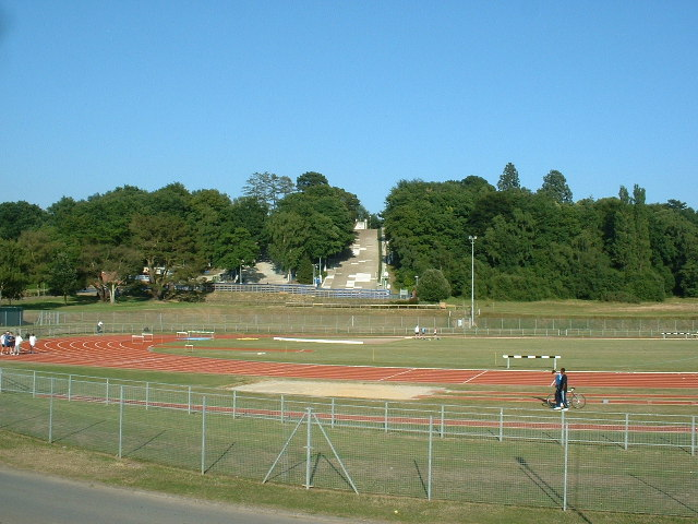 Southampton Sports Centre. Running track and dry ski slope at Southampton Sports Centre.